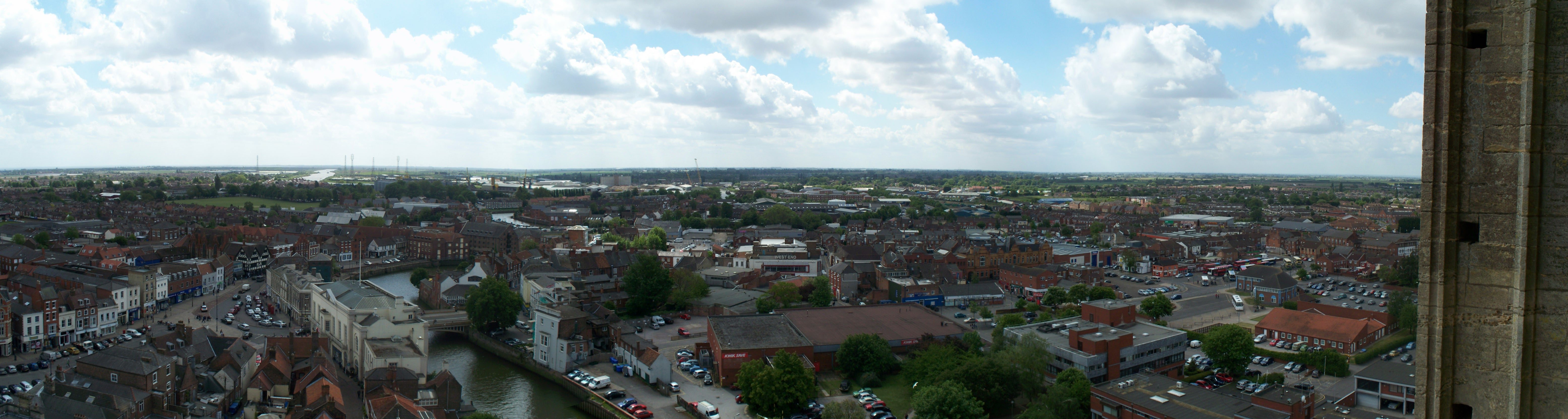 Panorama of Boston, England taken from the First balcony of the Tower at Boston Stump. Photo by Chris Horry, May 2011.